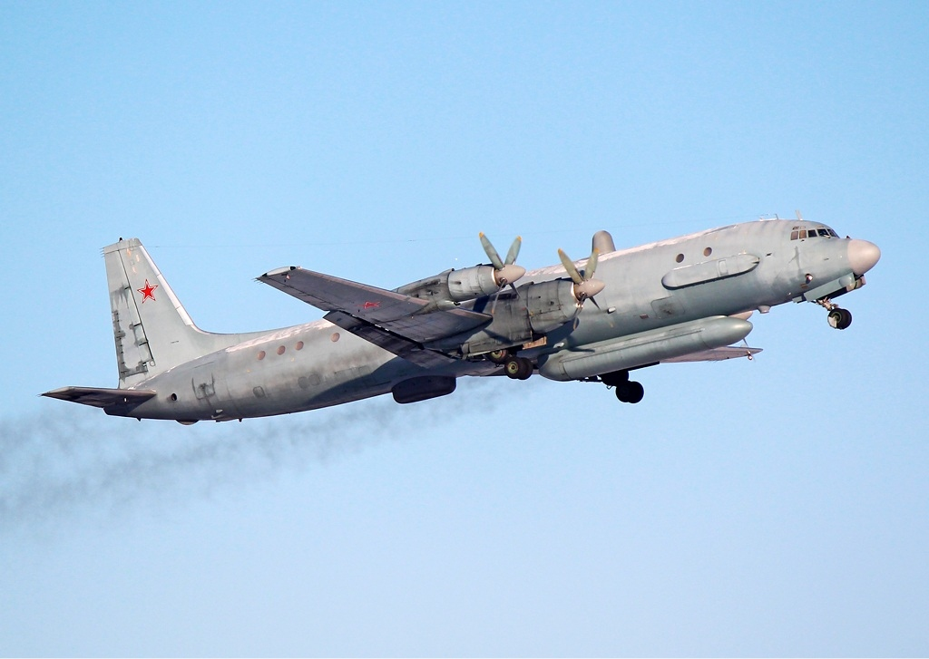 Russian Air Force Ilyushin Il-20